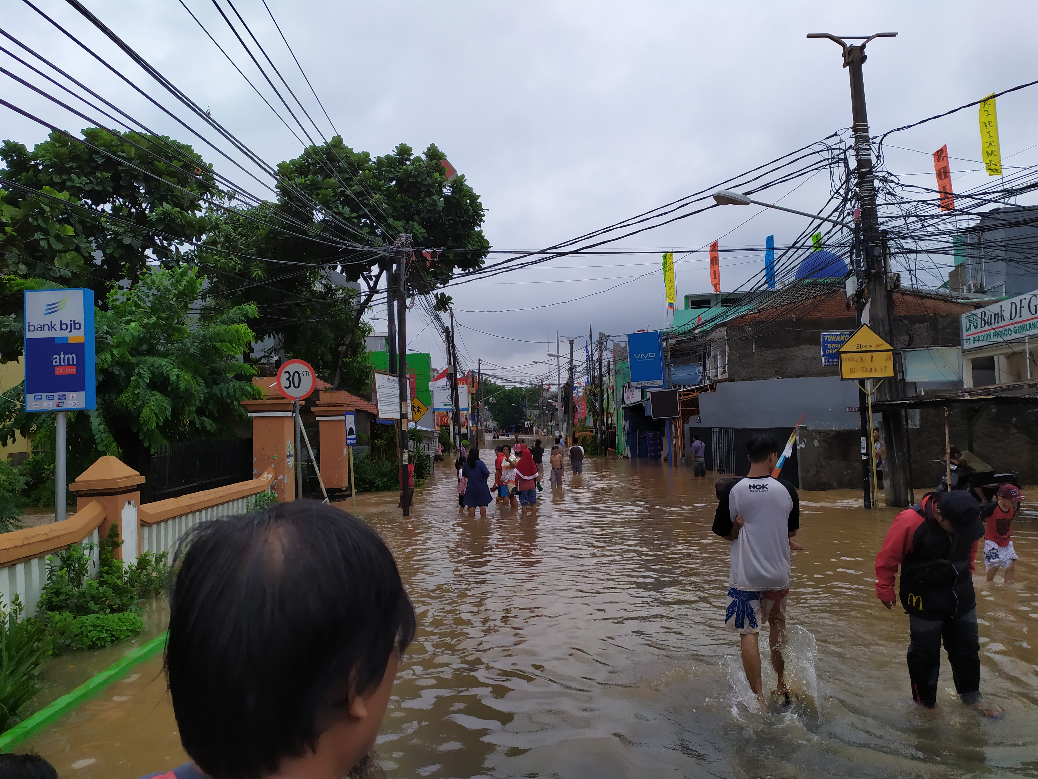 Floods that cuts the Raya Bintara Rd. on 1st January, 2020Bahasa Indonesia: Banjir merendam dan memutus Jalan Raya Bintara, Bekasi Barat, Kota Bekasi, Jawa Barat, Indonesia, pada 1 Januari 2020.